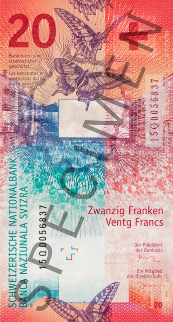 Back of the Swiss 20-franc banknote, ninth series (issued in 2017).